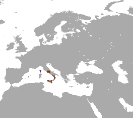 Corsican Hare (Lepus corsicanus) range